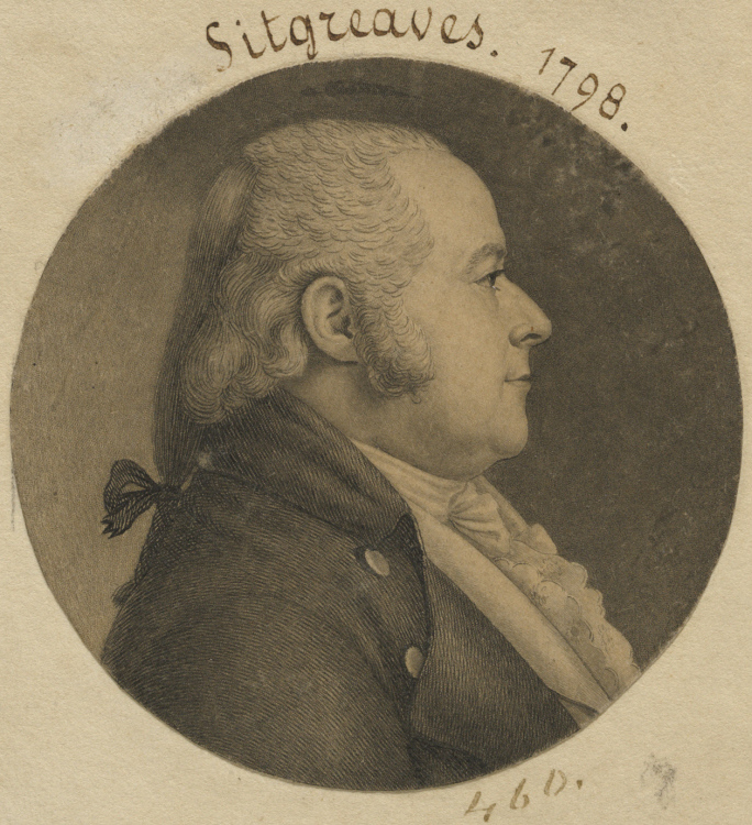 Samuel Sitgreaves Artist Charles Balthazar Julien Févret de Saint-Mémin, 12 Mar 1770 - 23 Jun 1852 Sitter Samuel Sitgreaves, 16 Mar 1764 - 4 Apr 1827 Date 1798 Type Print Medium Engraving on paper Dimensions Image: 5.5 x 5.5 cm (2 3/16 x 2 3/16") Sheet: 55 x 40 cm (21 5/8 x 15 3/4") Credit Line National Portrait Gallery, Smithsonian Institution; gift of Mr. and Mrs. Paul Mellon Object number S/NPG.74.39.10.35 Data Source National Portrait Gallery